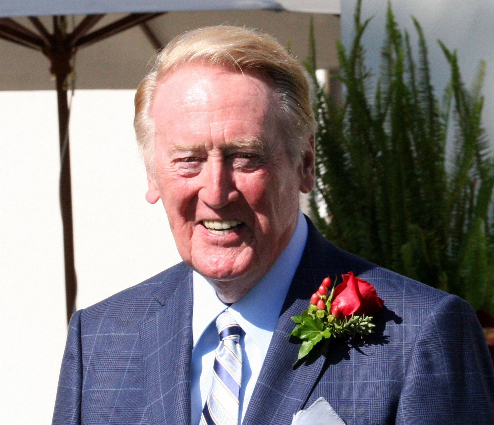 Vin Scully at Tournament of Roses Grand Marshal announcement